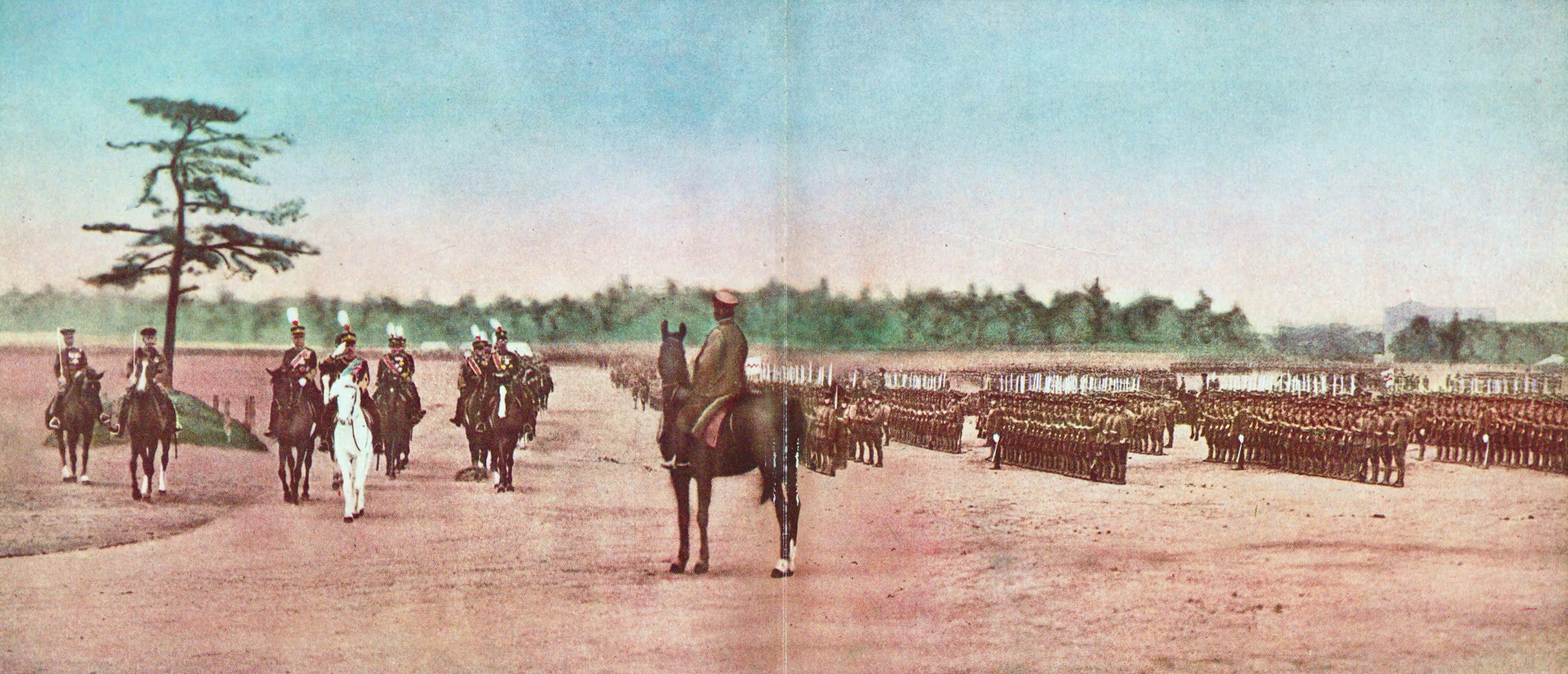 Military parade (Imperial Japanese Army).